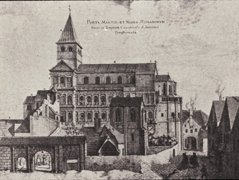 St. Simeon in Porta Nigra in Trier, engraving from 1670